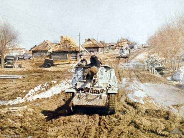 A column of German Wespe (Wasp) self propelled 105 mm howitzer guns passing through a Russian village.